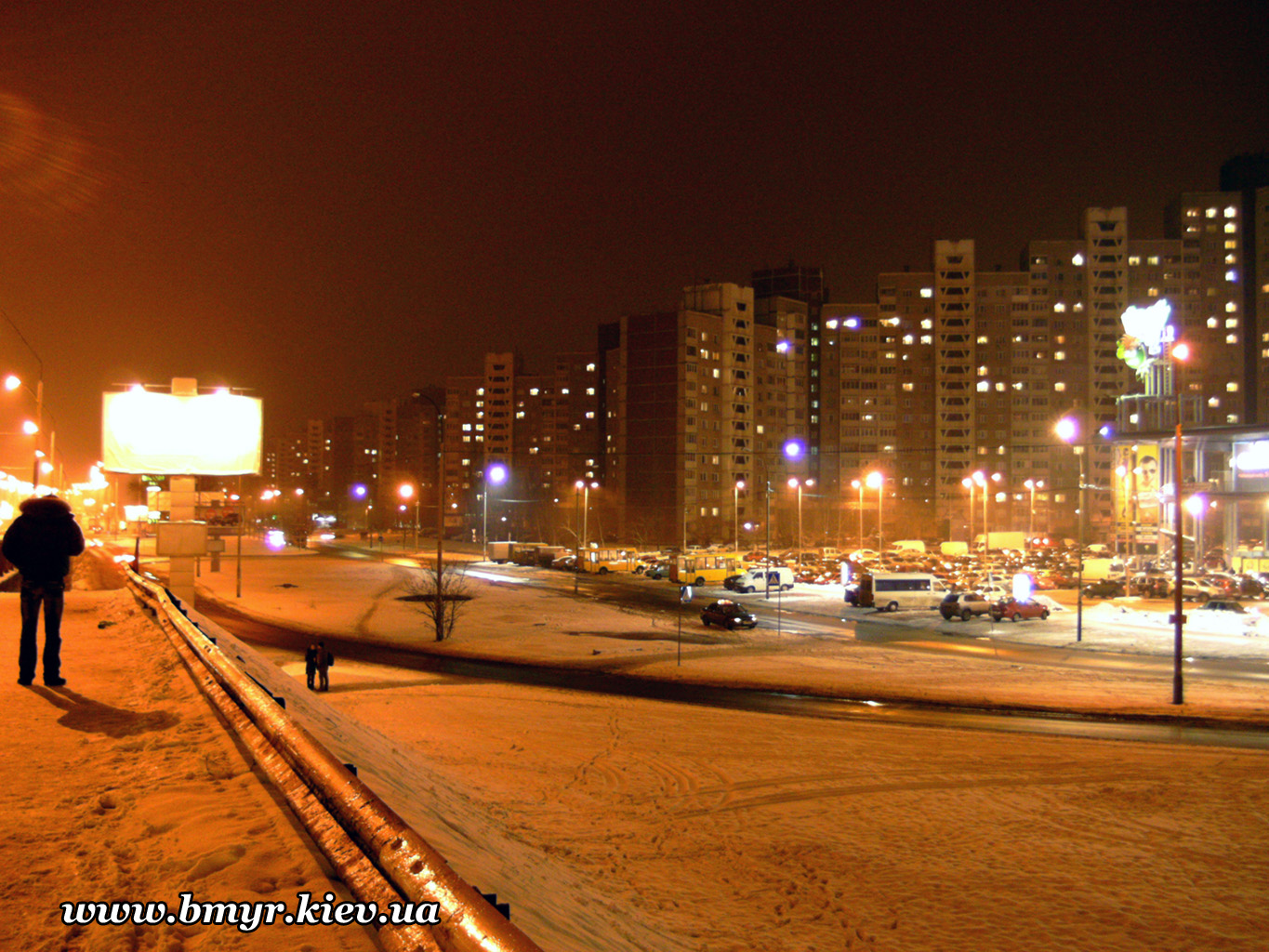 Night view of Teremky I residential area in Kyiv, Ukraine